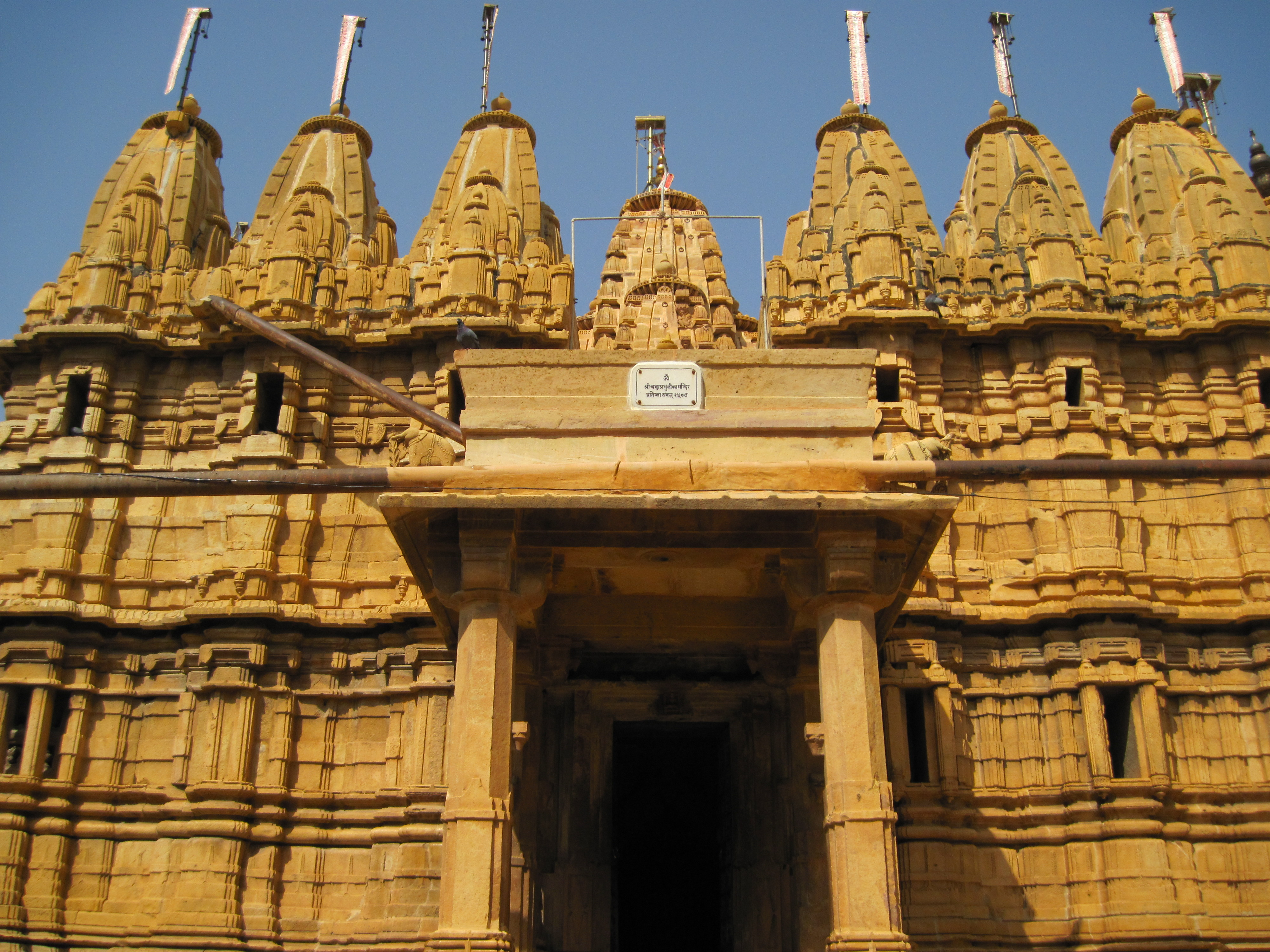 Fort including Ancient Temples